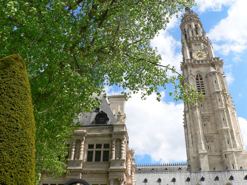 Belfry, Arras